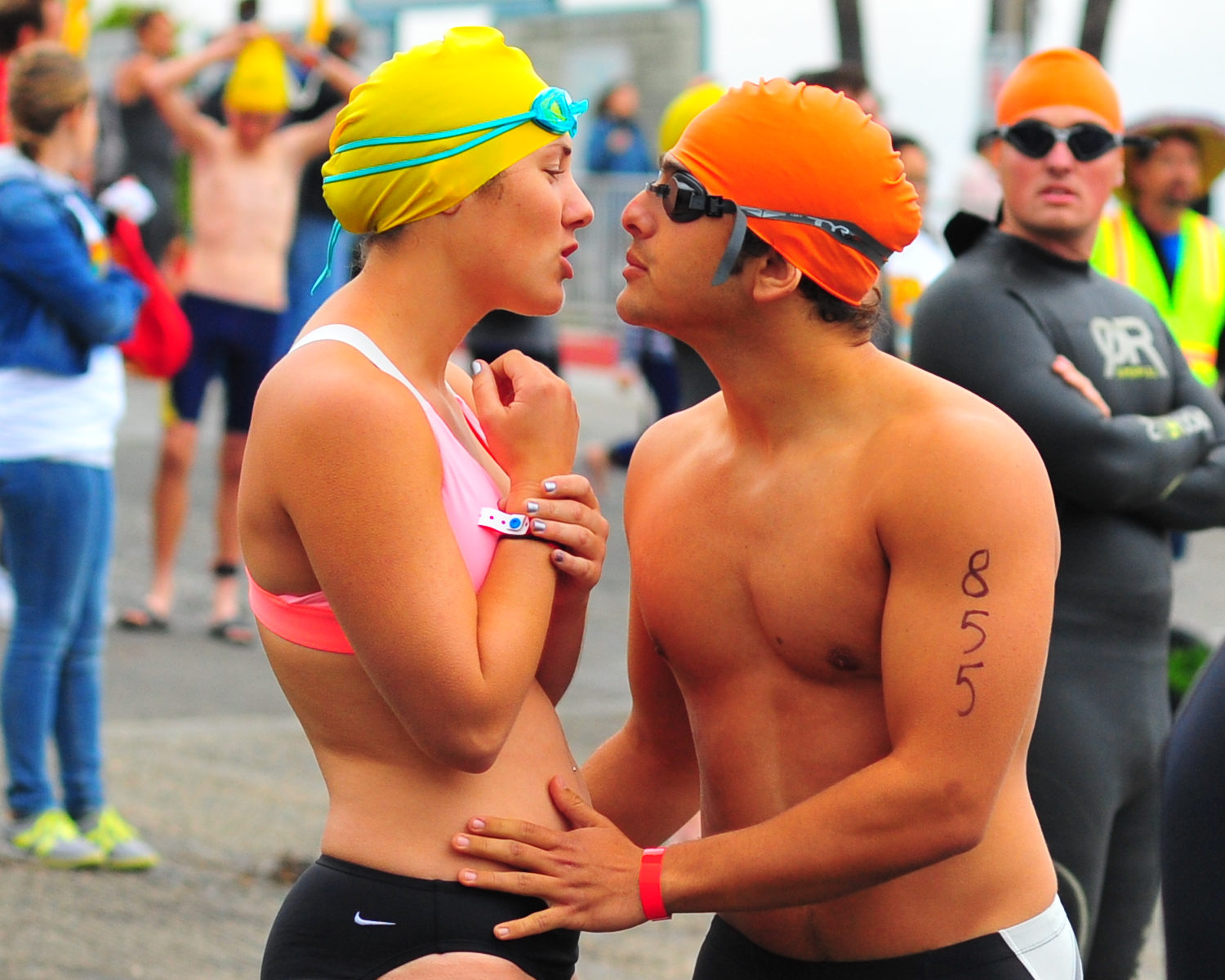 Leiana Swanson anticipates a kiss from Daniel Serrano before the swim. Swanson, in her early 20s, of San Diego, California, swam in the Sprint Triathlon after being encouraged to participate by a friend. VWG_6886_cr